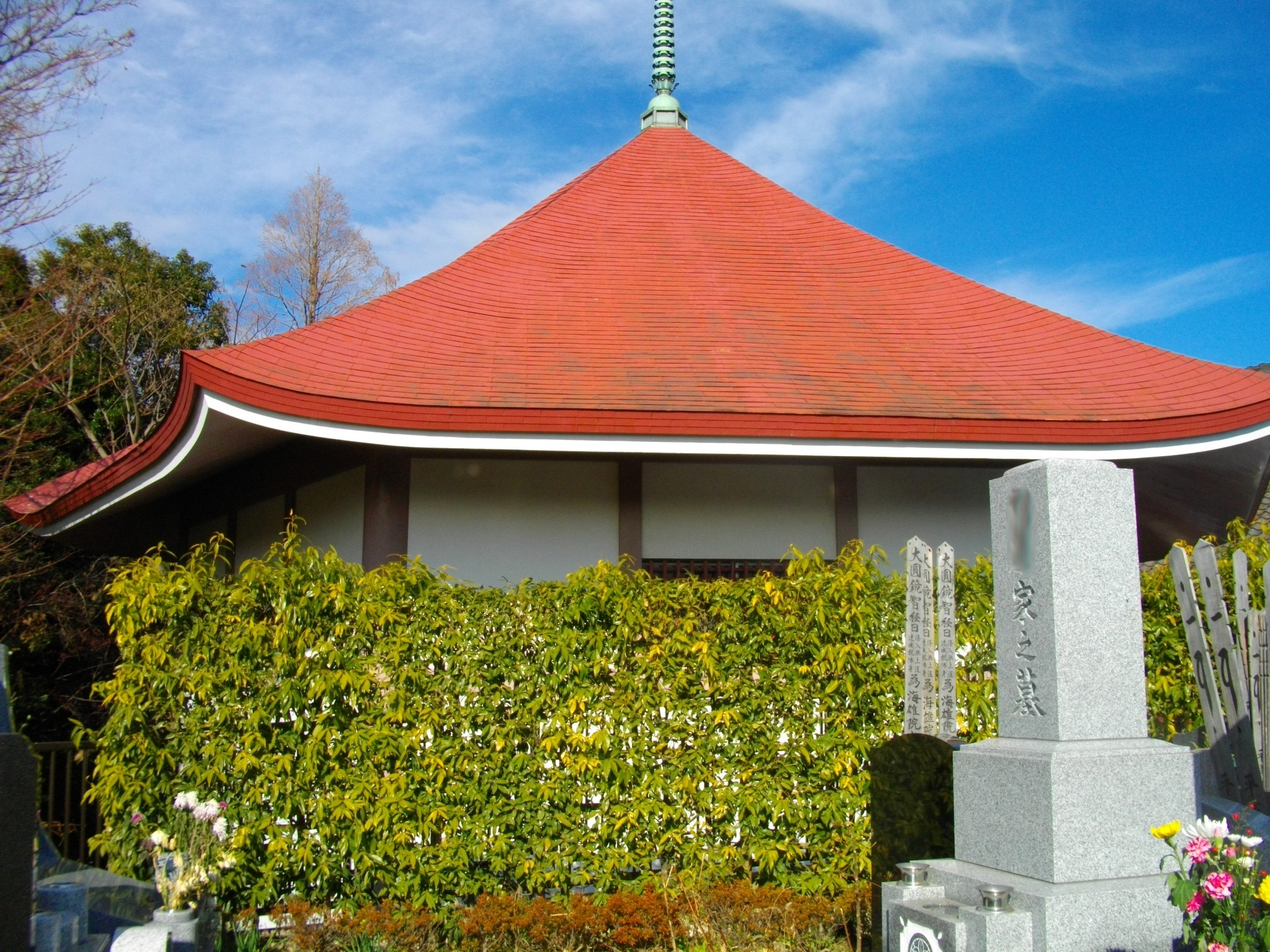 Sojiji Joshoden